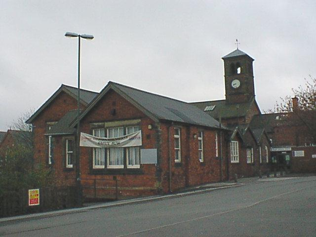 Clay Cross Adult education centre in Derbyshire in 2004.